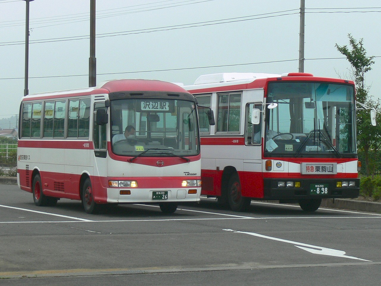 Miyakou Kurihara bus bus(Japan). It takes a picture in the bus terminal in front of Tohoku-Shinkansen Kurikoma-kogen Station. 宮交栗原バスの栗駒山線の特急便と高原駅沢辺線の沢辺駅行きのバスが待機している。 くりこま高原駅前バス停にて撮影。